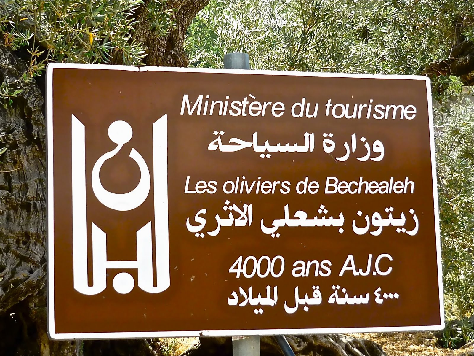 Commemorative sign honoring two ancient native Lebanese olive trees — in Bechealeh, northern Lebanon. Claimed to be 6,000 to 7,000 years old, which if it could be verified, would make them the oldest trees in the world. Sign given to the village by the Ministry of Tourism after the trees' possible age was publicized in 1999.